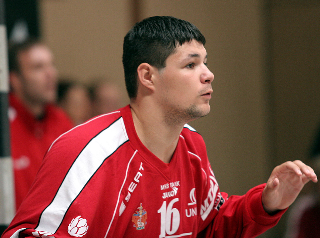 Ivan Pešić, handball goalkeeper from KC Veszprém on August 30th, 2008 in Ehingen (Germany) during the Schlecker Cup 2008